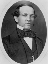 Charles E. Stuart U.S. Representative and Senator from Michigan The Congressional Bioguide credits the source of this image as the Detroit Public Library. Since the subject died in 1887 and this image appears to date from his lifetime, the copyright is believed to have expired.